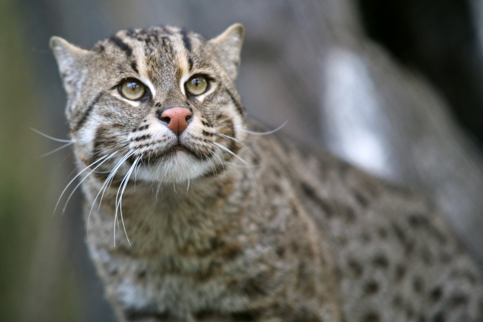 Fishing Cat (Prionailurus viverrinus)